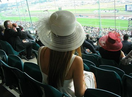 Woman's hat in Melbourne Cup. During the day, all women wear beautiful and exotic hats.